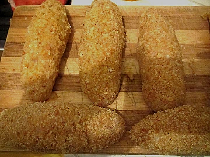 Chicken Kiev is a popular breaded cutlet dish of boneless chicken.